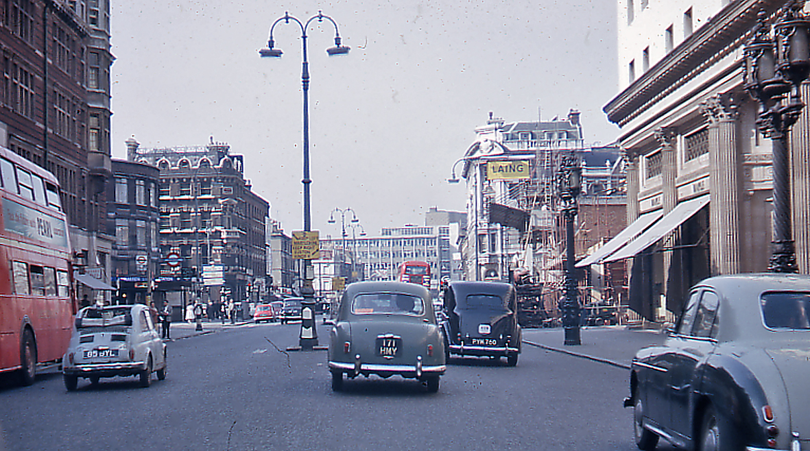 Northward on Tottenham Court Road, approaching Euston Road, 1962. The entrance to Warren Street Underground station - Northern Line only back in 1962 - is on the left, while up and to the right on Euston Road is Euston Square station (Metropolitan & Circle Line). The changes in the past 50 years will be apparent.